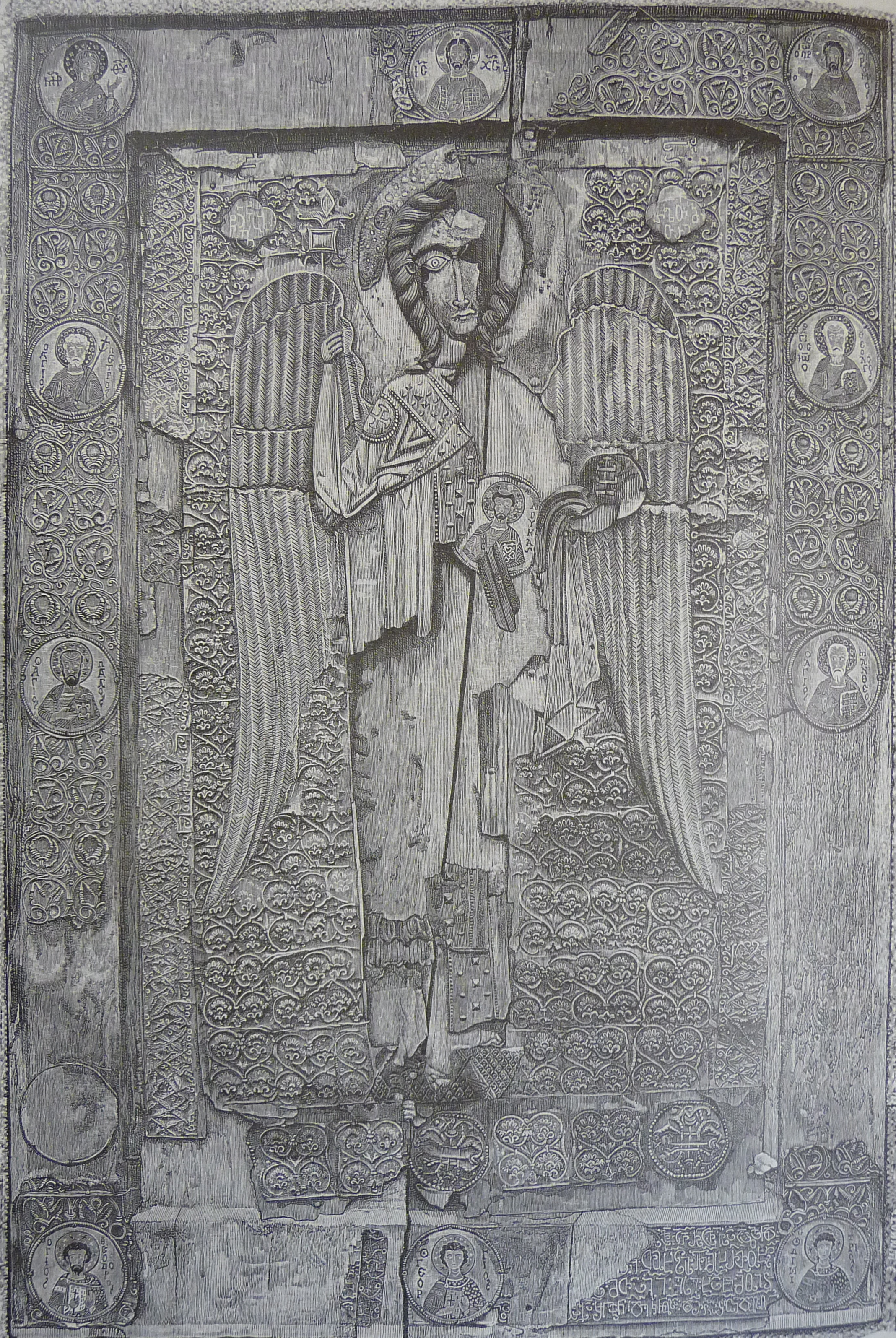 Archangel Gabriel icon of Djumati church